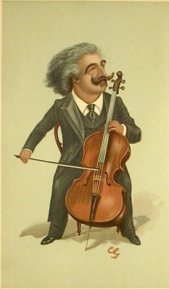 Caricature of Joseph Hollman. Caption read "a great Cellist".